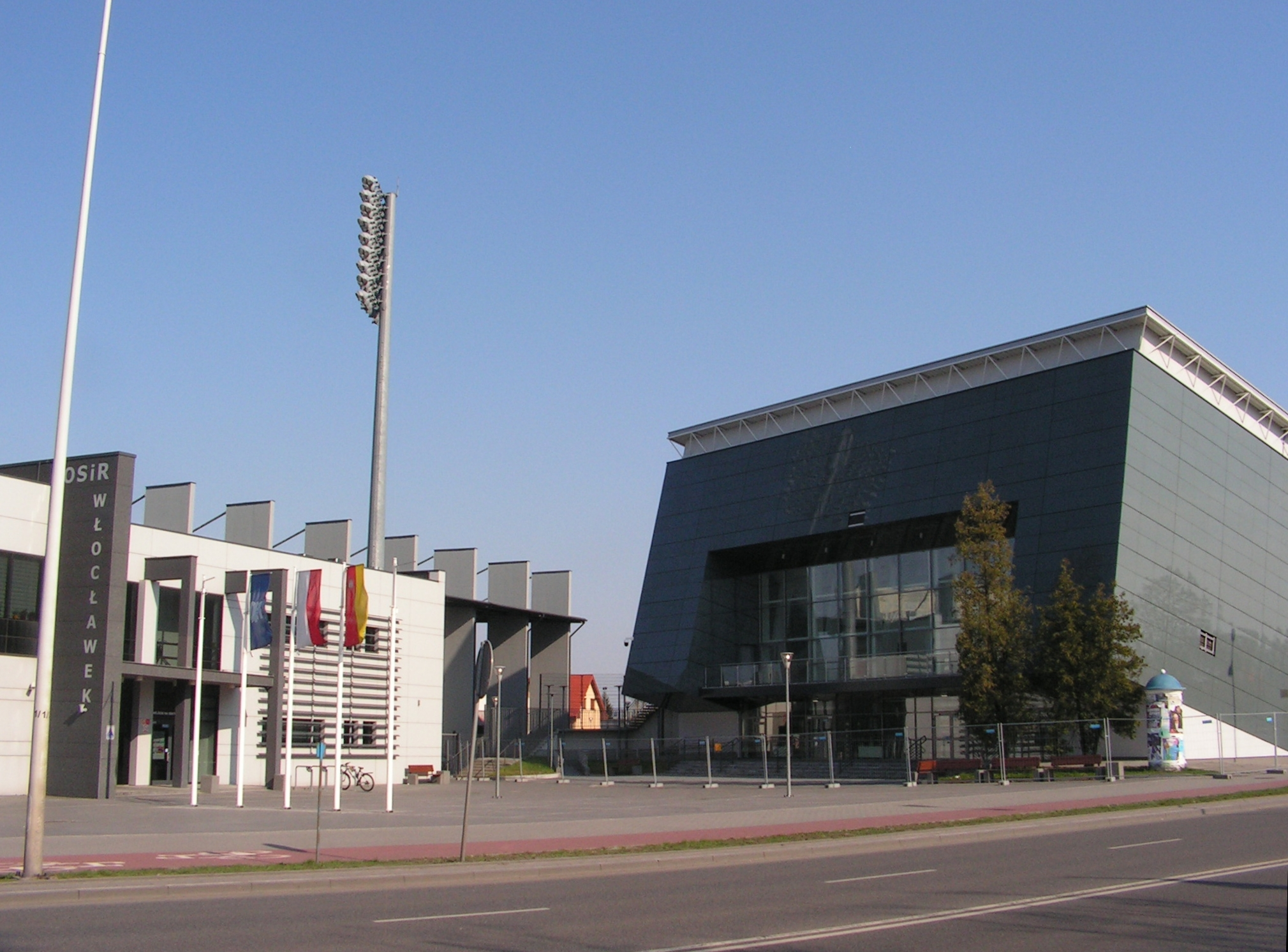 Sports objects at Chopin Avenue in Włocławek. On the left side there is a OSiR (Ośrodek Sportu i Rekreacji - Sport and Recreation Centre) football-athletics stadium, rebuilt from 2011 to 2014 year. On the right side there is a OSiR Hall, rebuilt from 2017 to 2018 year.